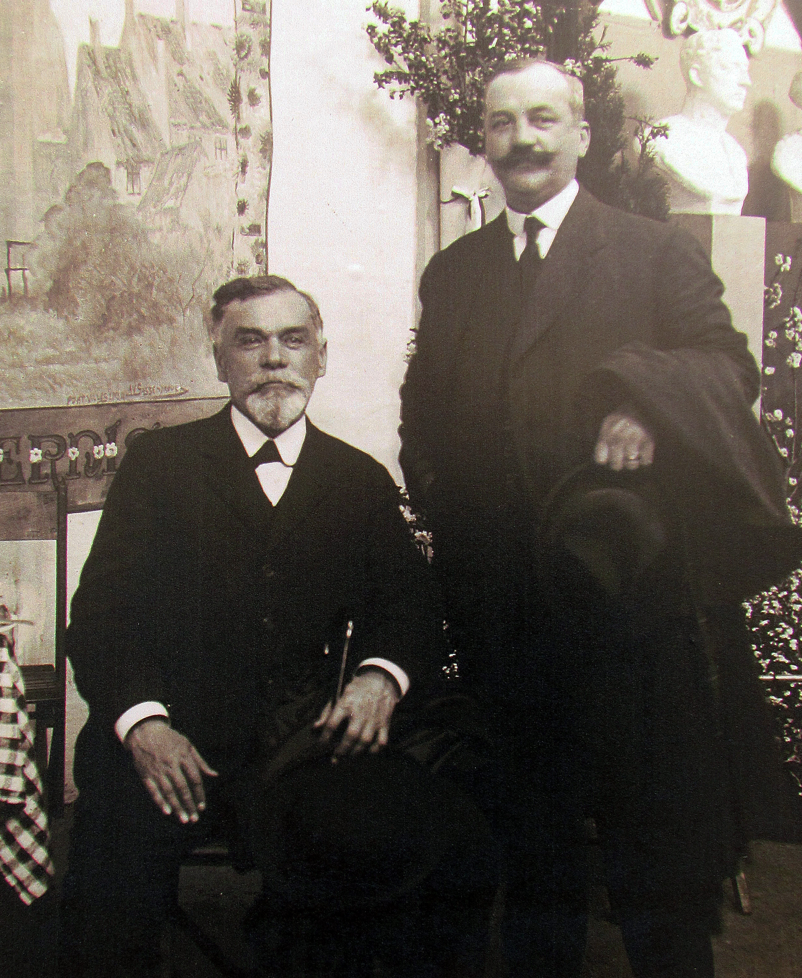 Jovan Žujović in France, 1916